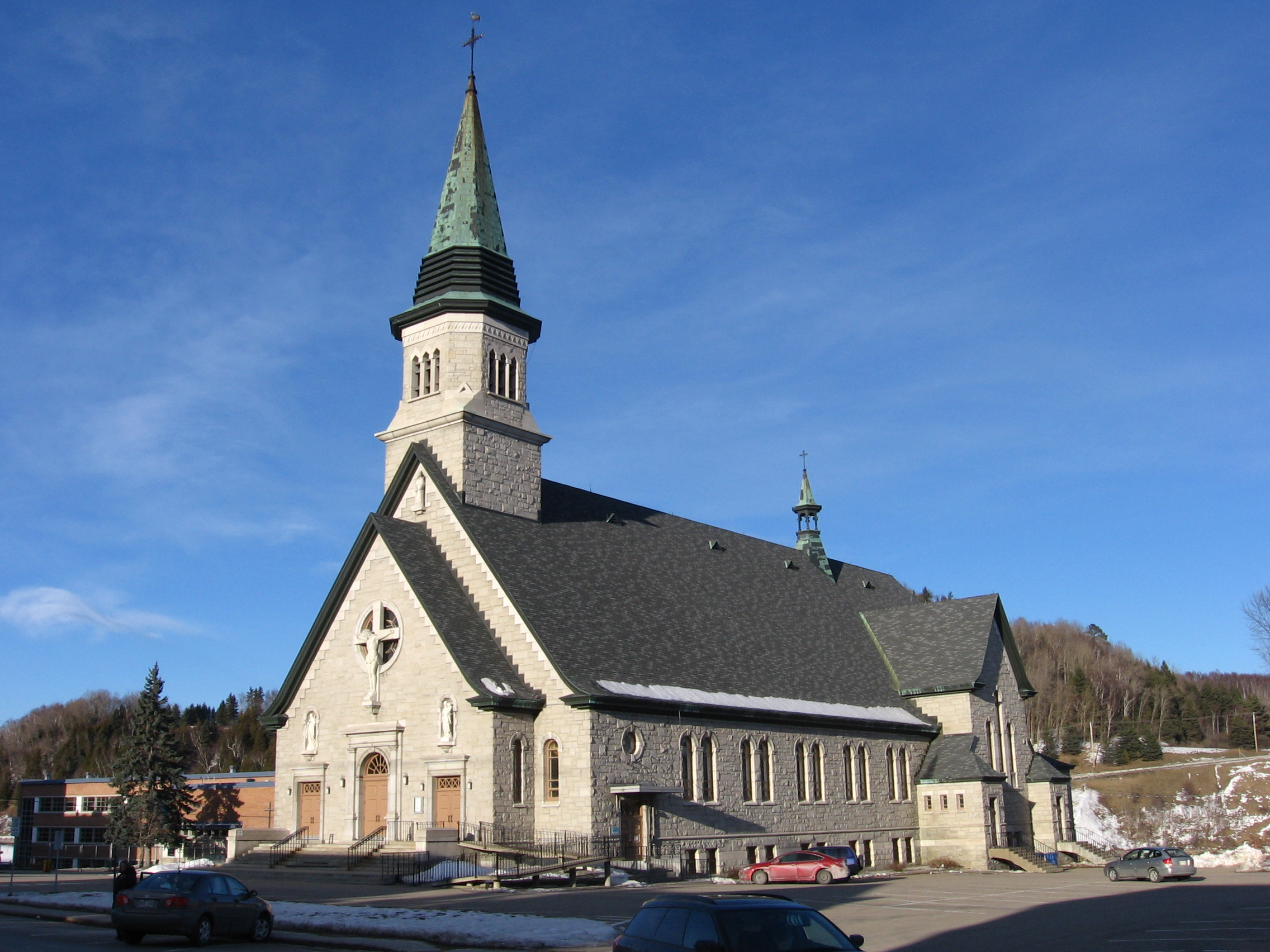 Saint-Étienne church at La Malbaie, Quebec.